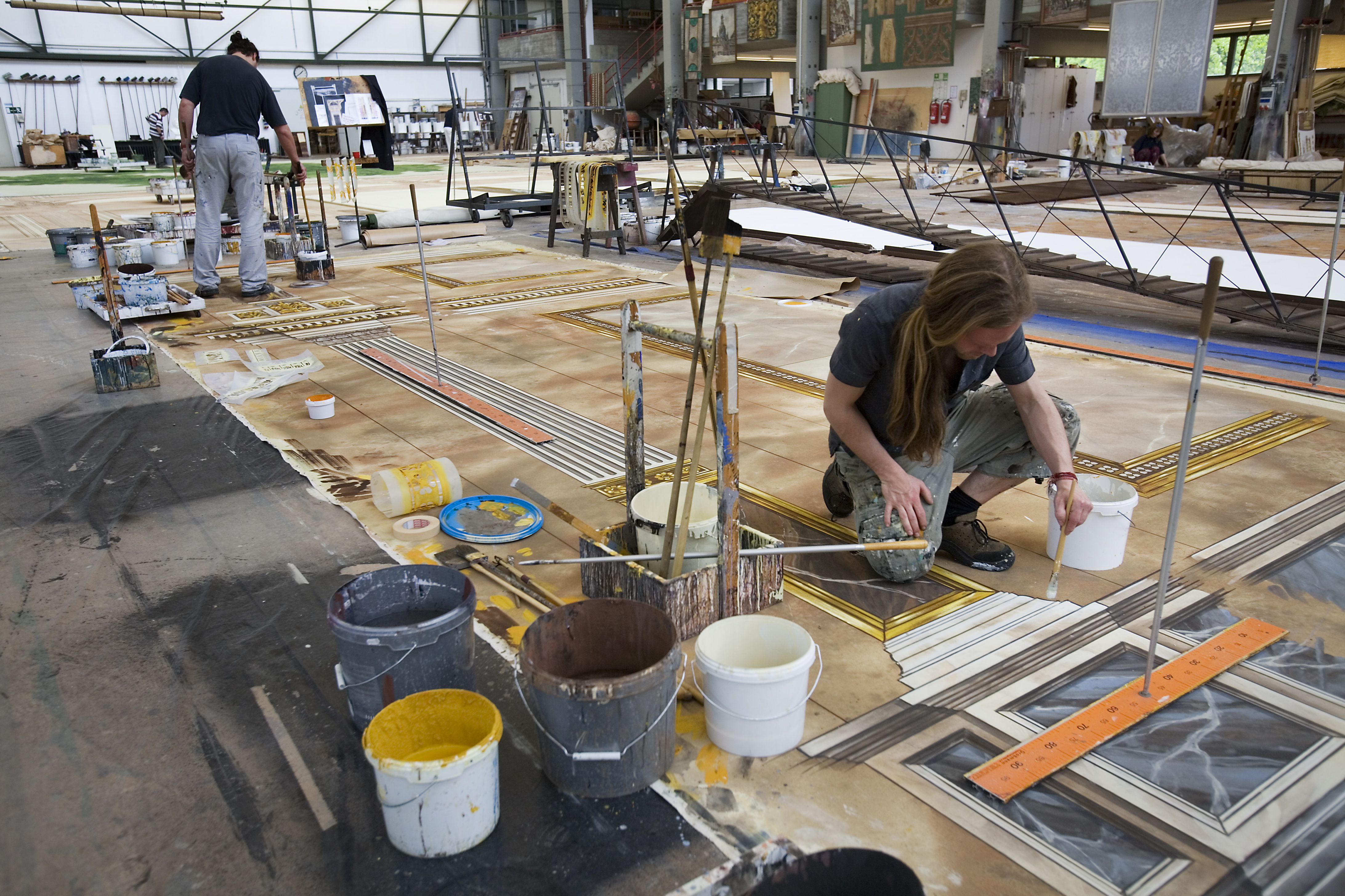 Scenography, set construction and theatrical scenery